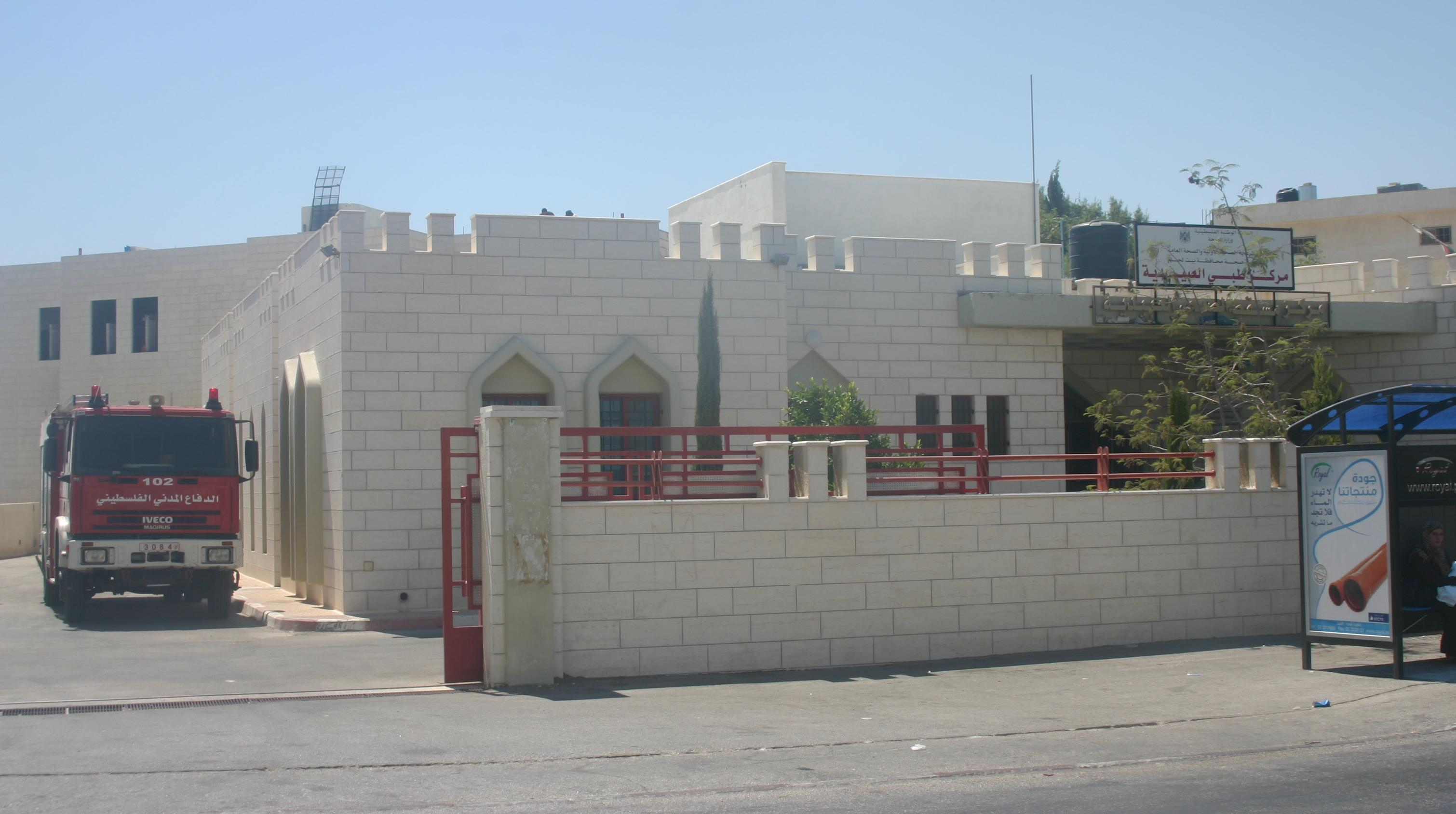 Fire station in the al-Ubeidiya (Governate Bethlehem)